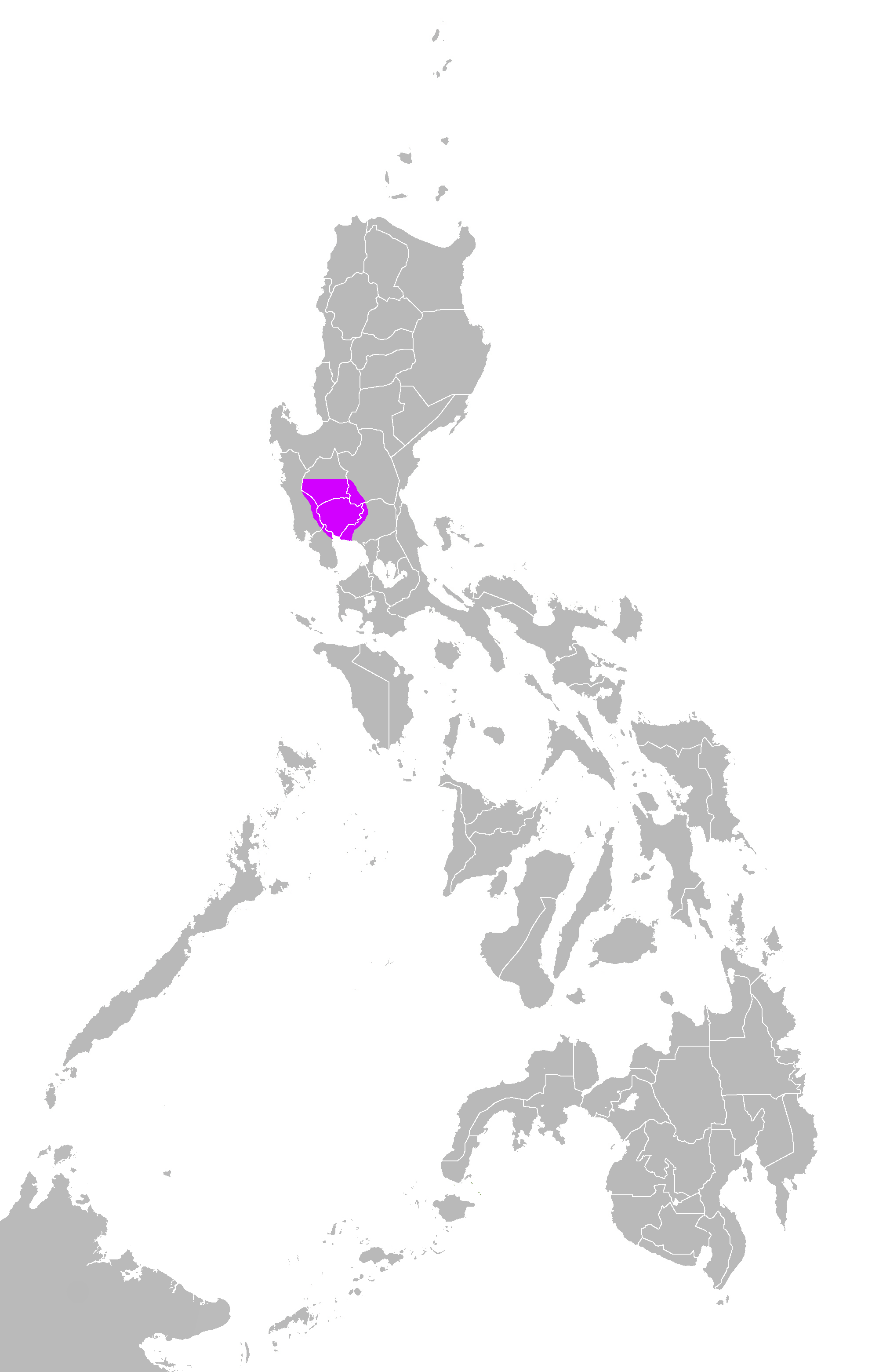 Maximum extent of the Kapampangan language. Kapampangan: Pekamaragul a kayanganan ning amanung Kapampangan. Pangasinan: Sankabalgan ya anggaan na salitan Kapampangan.